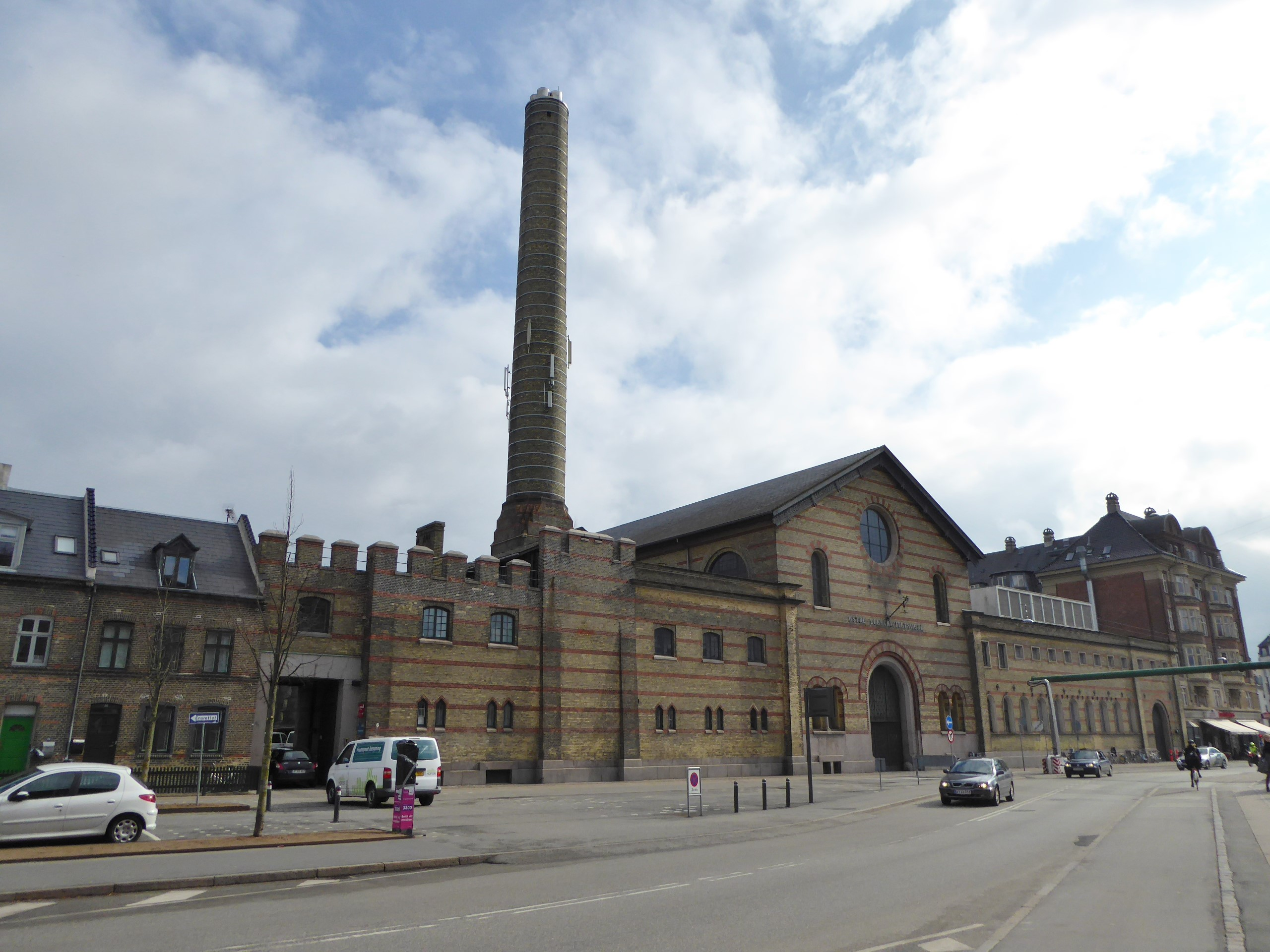 The power plant Østre Elektricitetsværk at Øster Allé in Østerbro in Copenhagen.